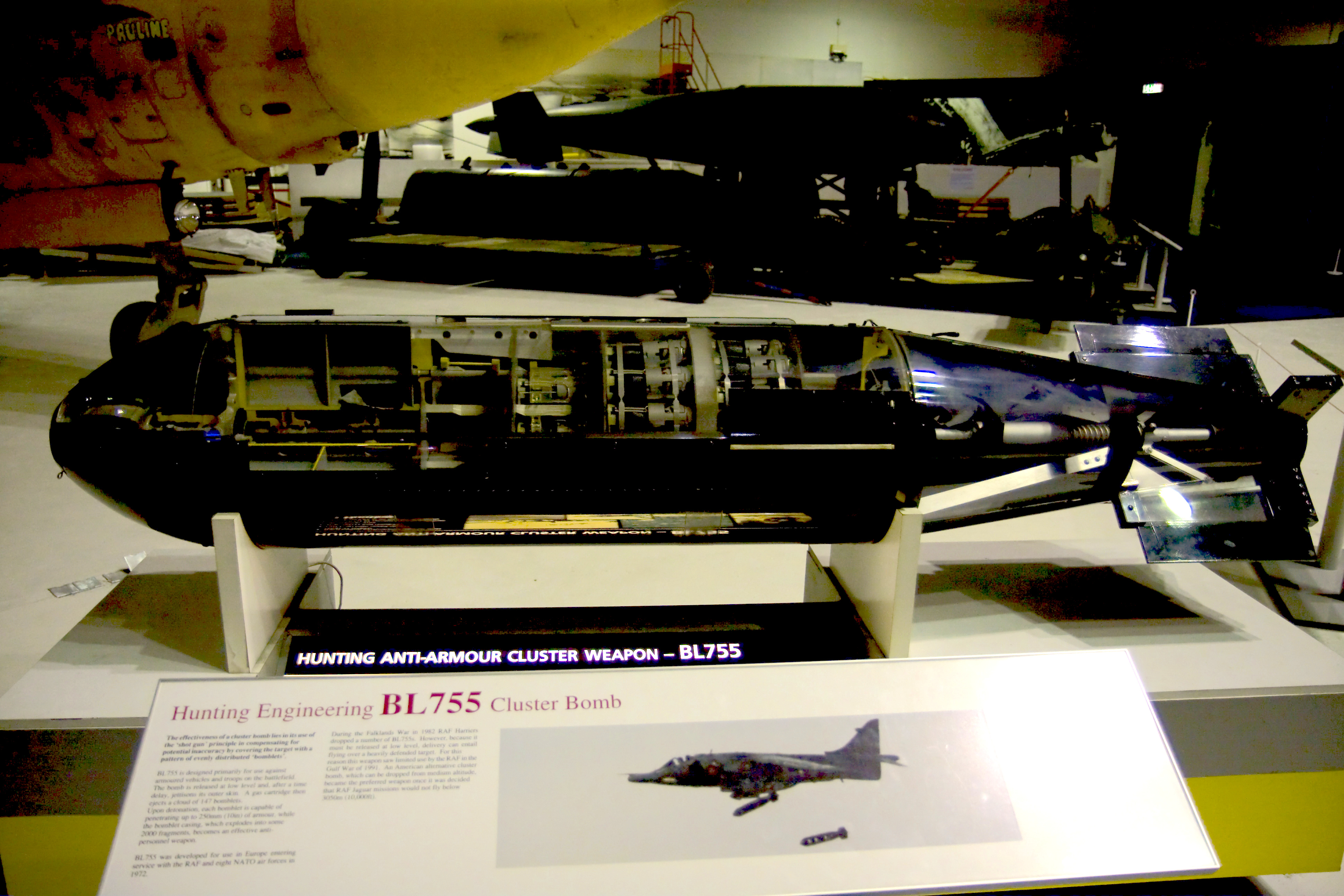 BL755 cluster bomb